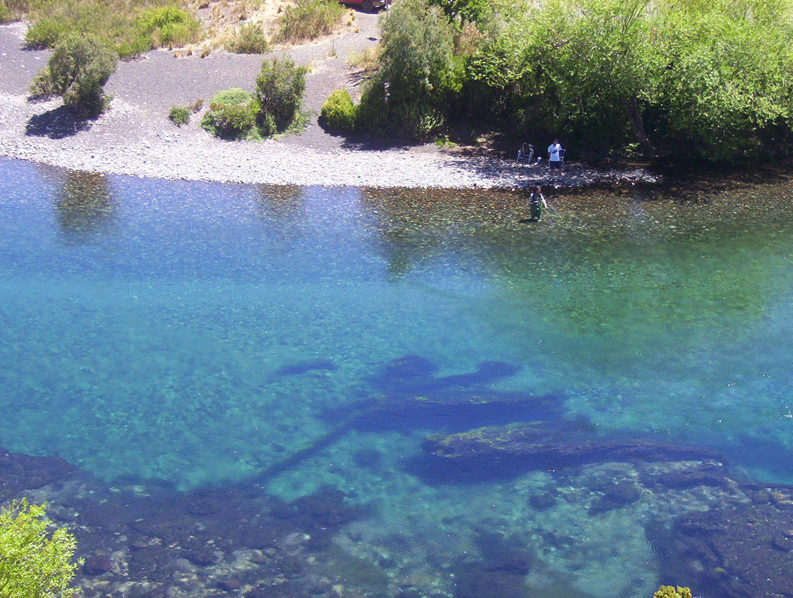 Picture fo the first curve of the Chimehuin river, notice the big fish in the middle of the picture.